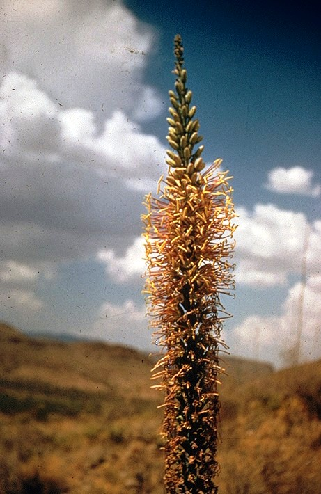 Agave lechuguilla Torr. — Lechuguilla. Inflorescence. Location: West of Van Horn, Texas, U.S.